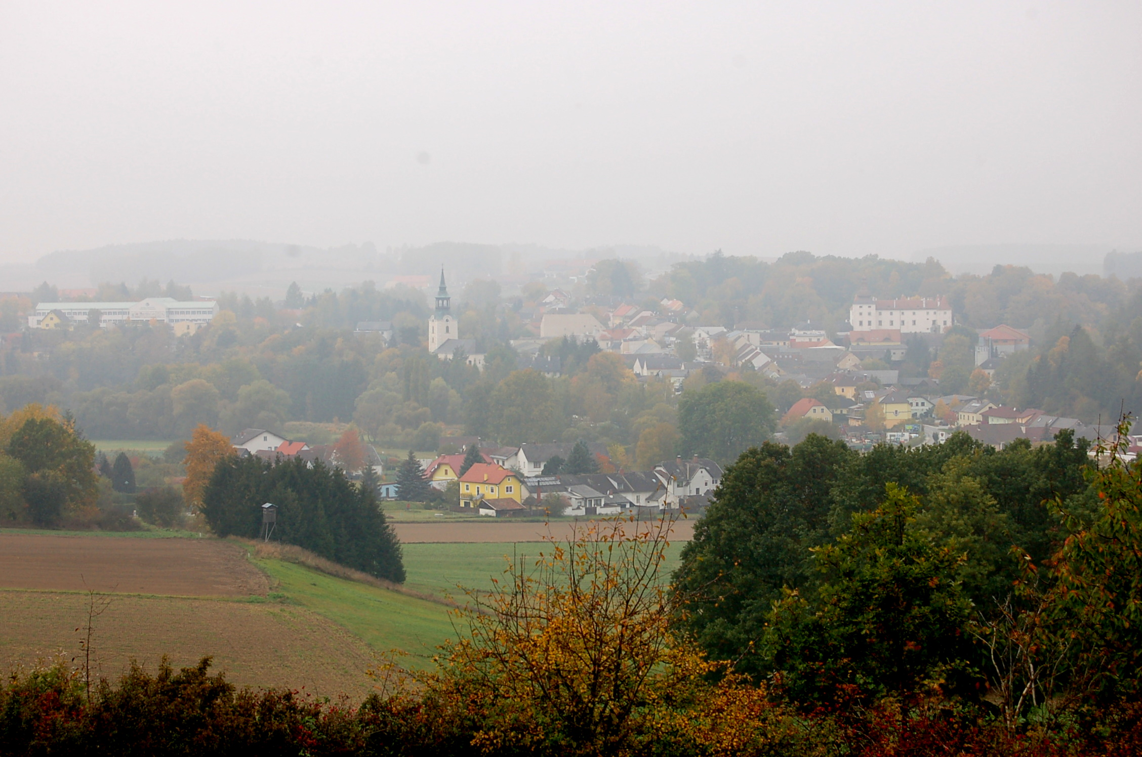 View of Dobersberg, Lower Austria, from the east on a foggy autumn afternoon